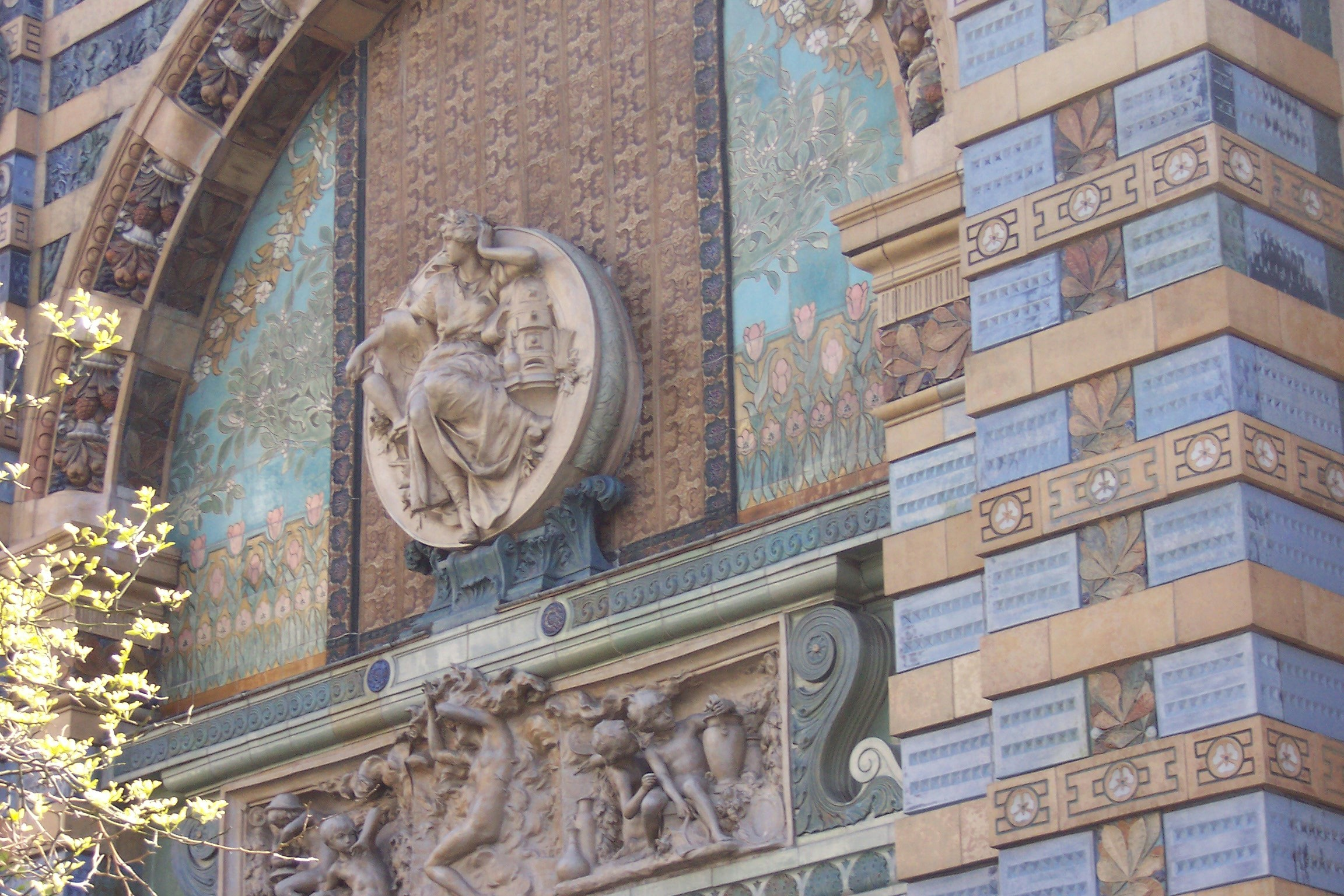 Jules-Félix Coutan sculptures. Square Félix-Desruelles, 6 District, Paris, Francia